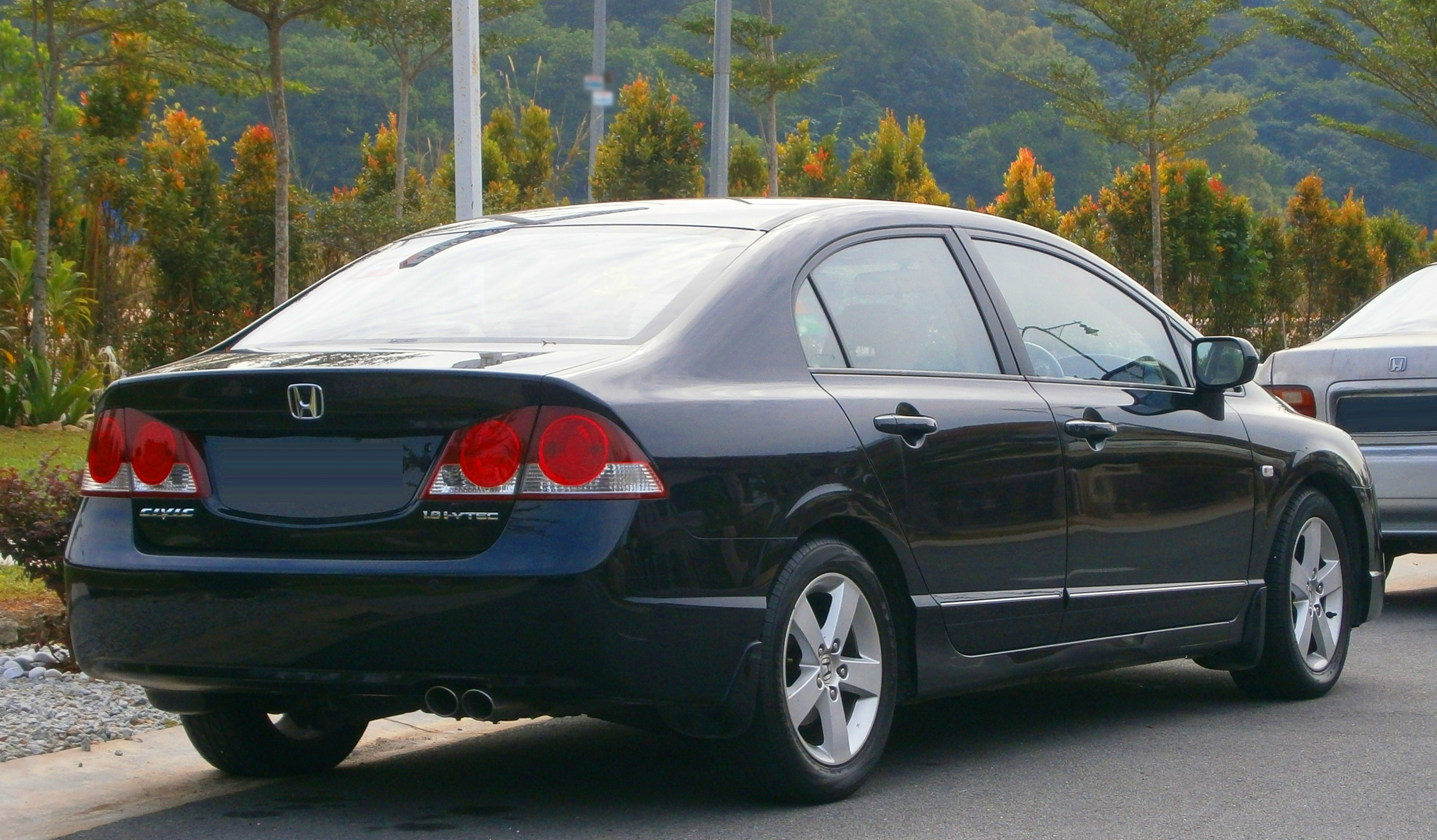 2007 Honda Civic 1.8S saloon in Puchong, Malaysia. Designed in Japan , Assembled in Malaysia